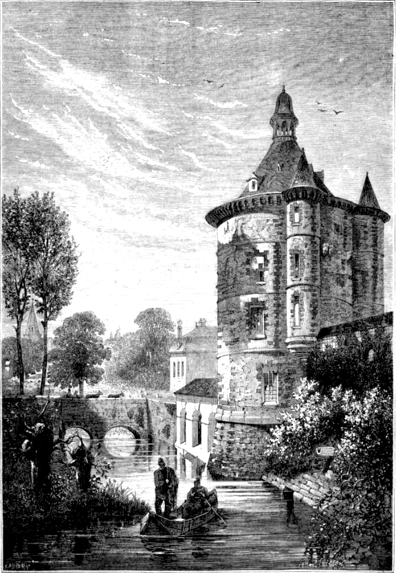 The Castle of Sainte-Geneviève-des-Bois in France